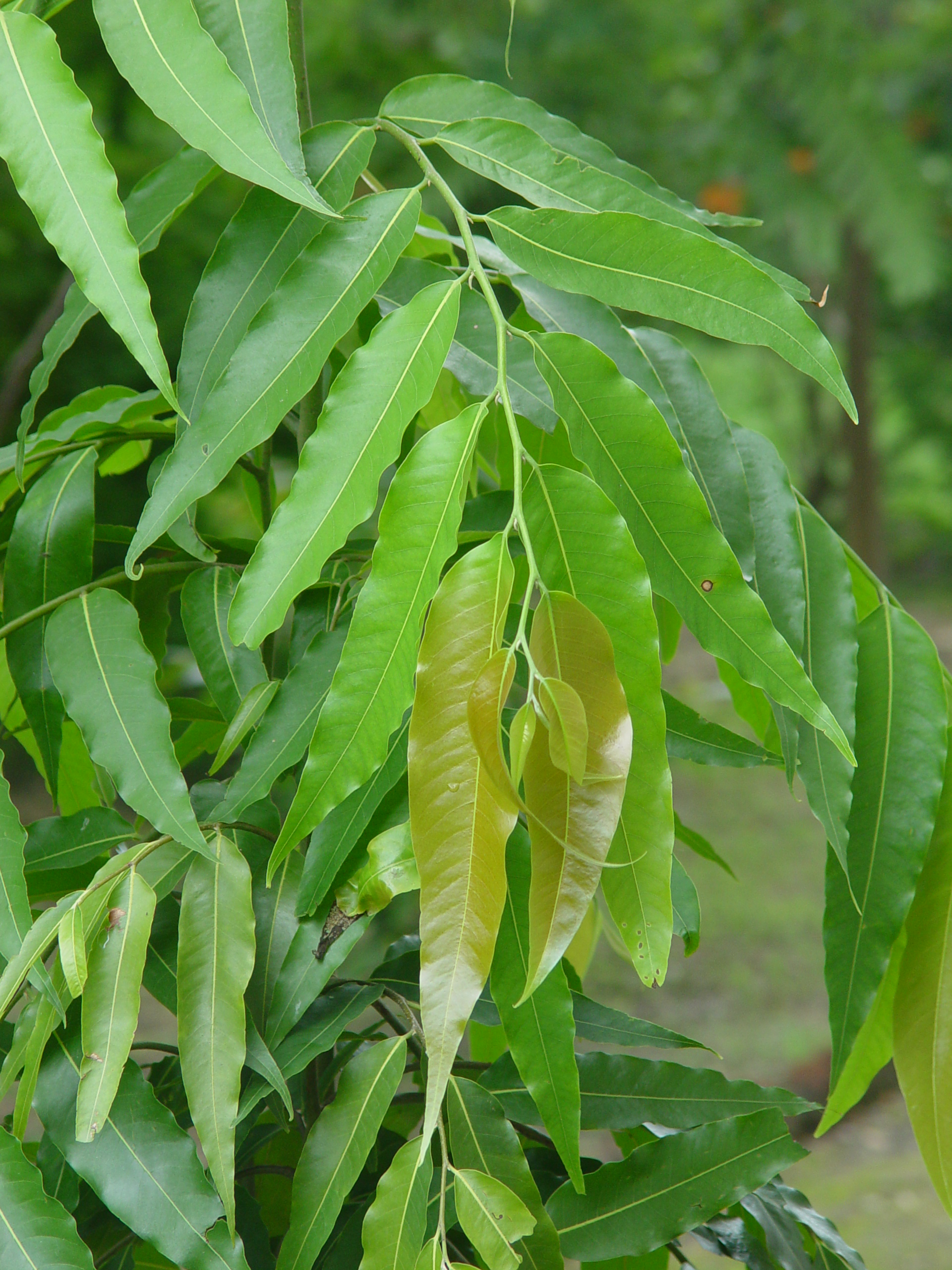 Polyalthia longifolia's common names include False Ashoka, the Buddha Tree, Indian mast tree, and Indian Fir tree. Its names in other languages include Ashoka or Devadaru in Sanskrit, Debdaru in Bengali and Hindi, Asopalav (Gujarati),Glodogan tiang (Indonesian),devdar in marathi and Nettilinkam in Tamil. There are two important traditions associated with the tree (presumably in its full, untrimmed, form with spreading branches), one being of Sita taking shelter in the shade of Ashoka when in captivity (found in the Ramayana) and another that of the Ashoka tree requiring a kick from a beautiful woman on spring festival day before it would bloom (in the Malavikagnimitra, for example). Polyalthia longifolia is a lofty evergreen tree, native to India, commonly planted due to its effectiveness in alleviating noise pollution. It exhibits symmetrical pyramidal growth with willowy weeping pendulous branches and long narrow lanceolate leaves with undulate margins. The tree is known to grow over 30 ft in height. Polyalthia Longifolia is sometimes incorrectly identified as Ashoka tree (Saraca Indica)because of very close resemblance of both trees.